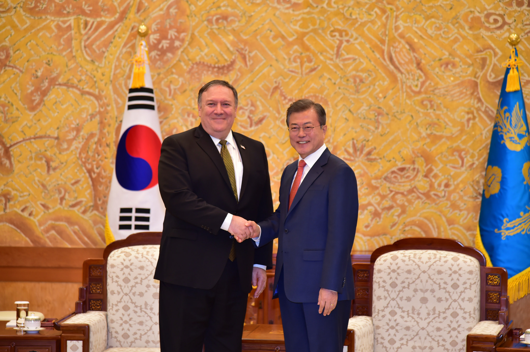 Secretary of State Michael R. Pompeo meets with Republic of Korea President Moon Jae-in in Seoul, Republic of Korea on October 7, 2018. [State Department photo/Public Domain]